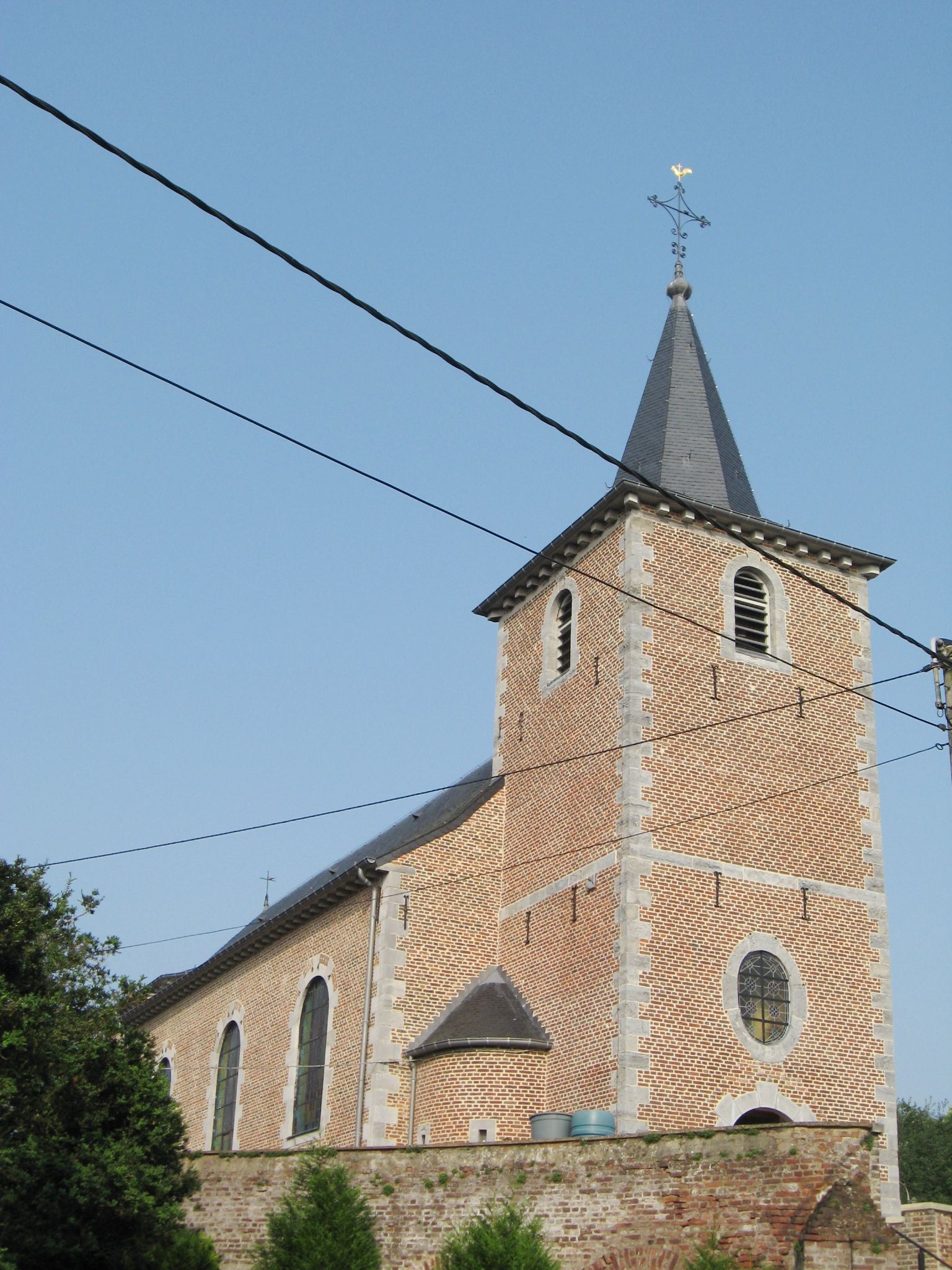 Church of Saint Trudo in Laar, Landen, Flemish Brabant, Belgium